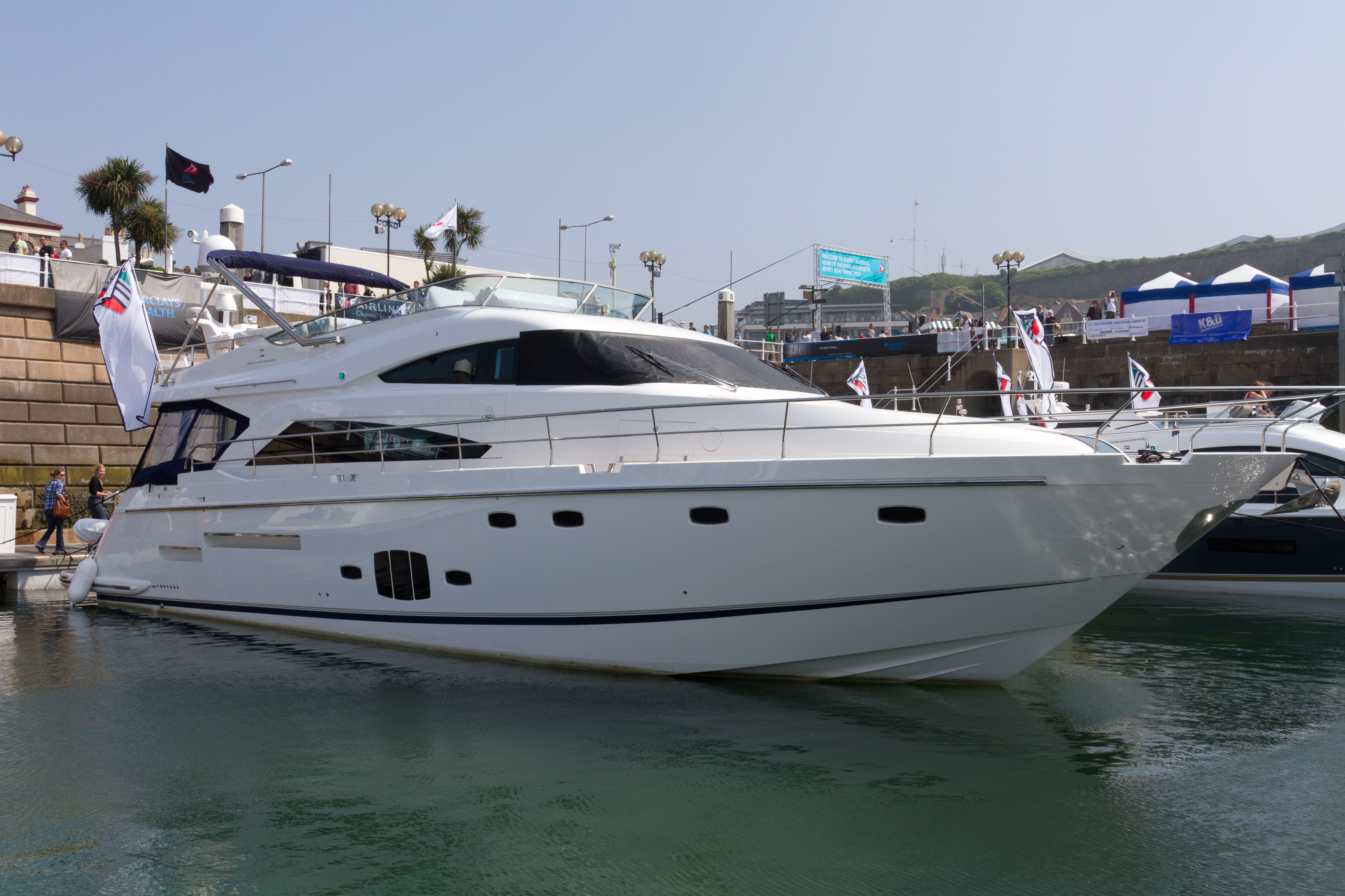 A Fairline Squadron at the Jersey Boat Show 2011.